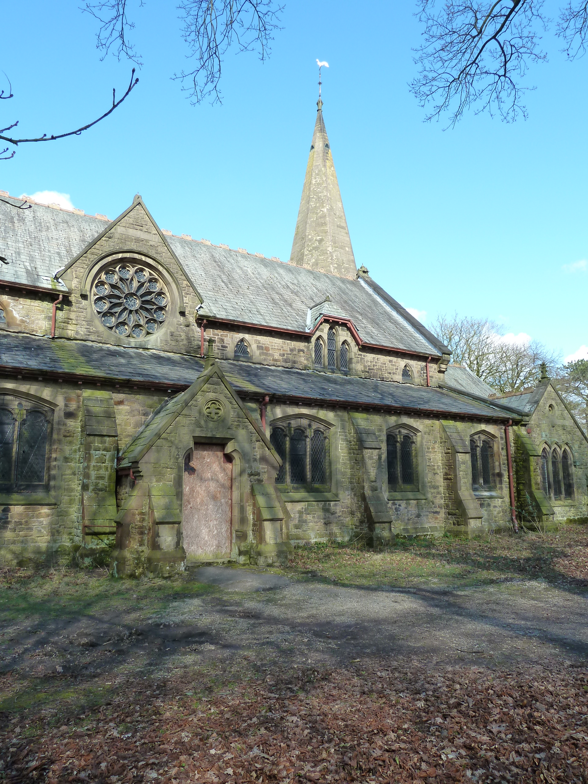 The former St John's church, Whittingham Hospital, Lancashire, seen from the southwest